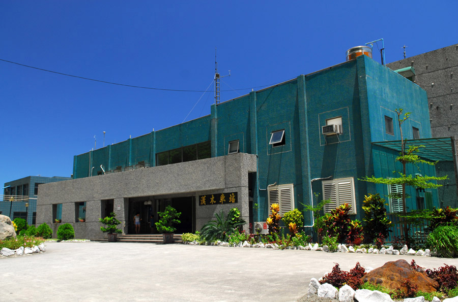 HanBen Station is a local train station of North-Link Line, part of Taiwan's eastern rail line. It is located within the boundary of NanAo Township, YiLan County, Taiwan.